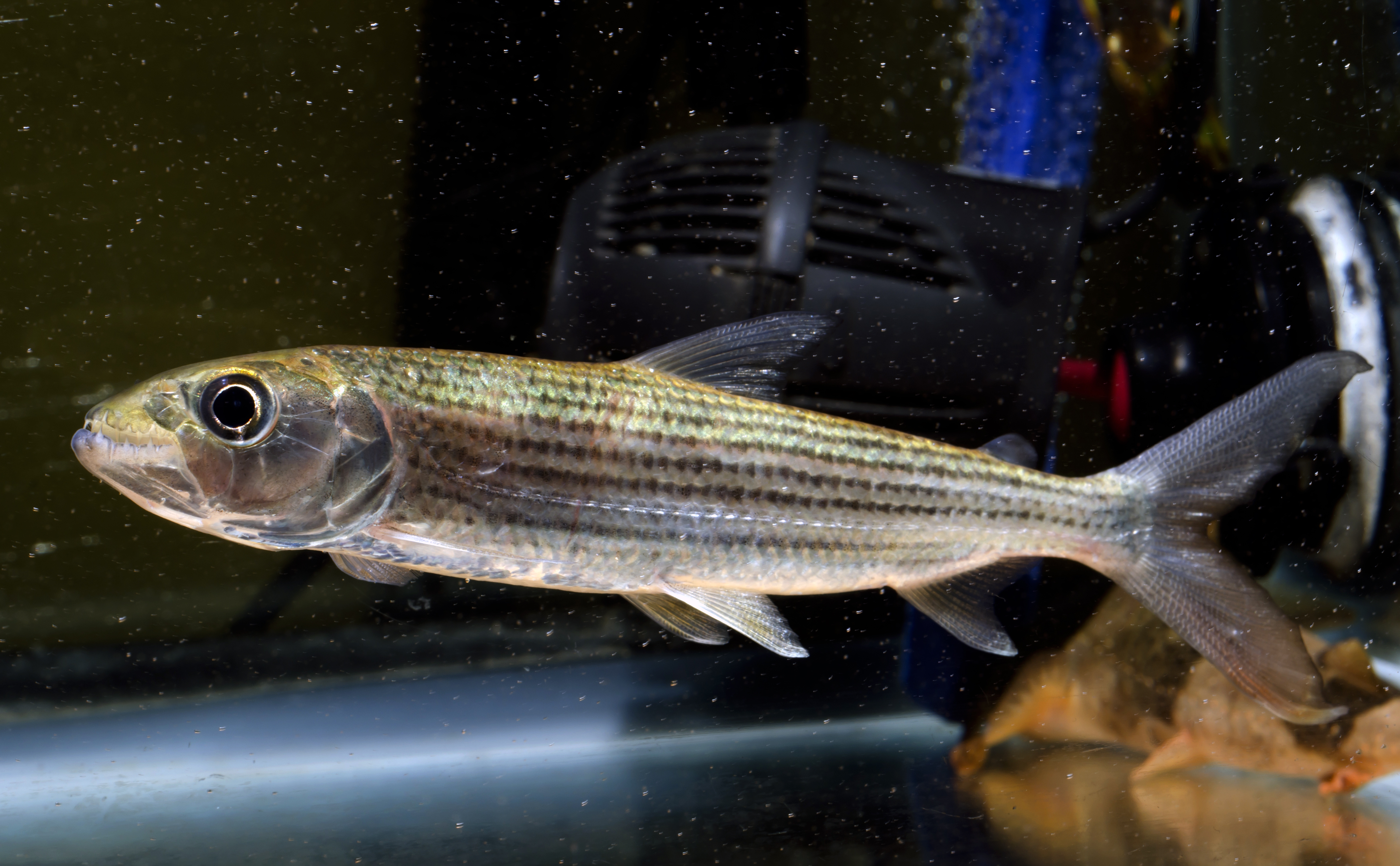 "Billy Badass" the Hydrocynus brevis at about six inches long. I will update this file as he grows.